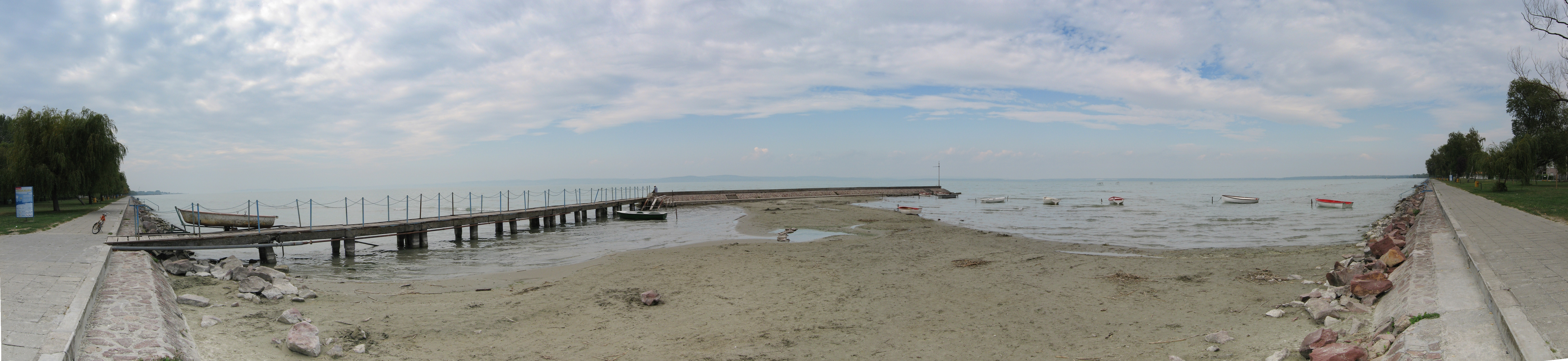 Panorama of Balaton Lake in Siófok, Hungary, taken near Hotel Magistern. Mounted with Hugin.